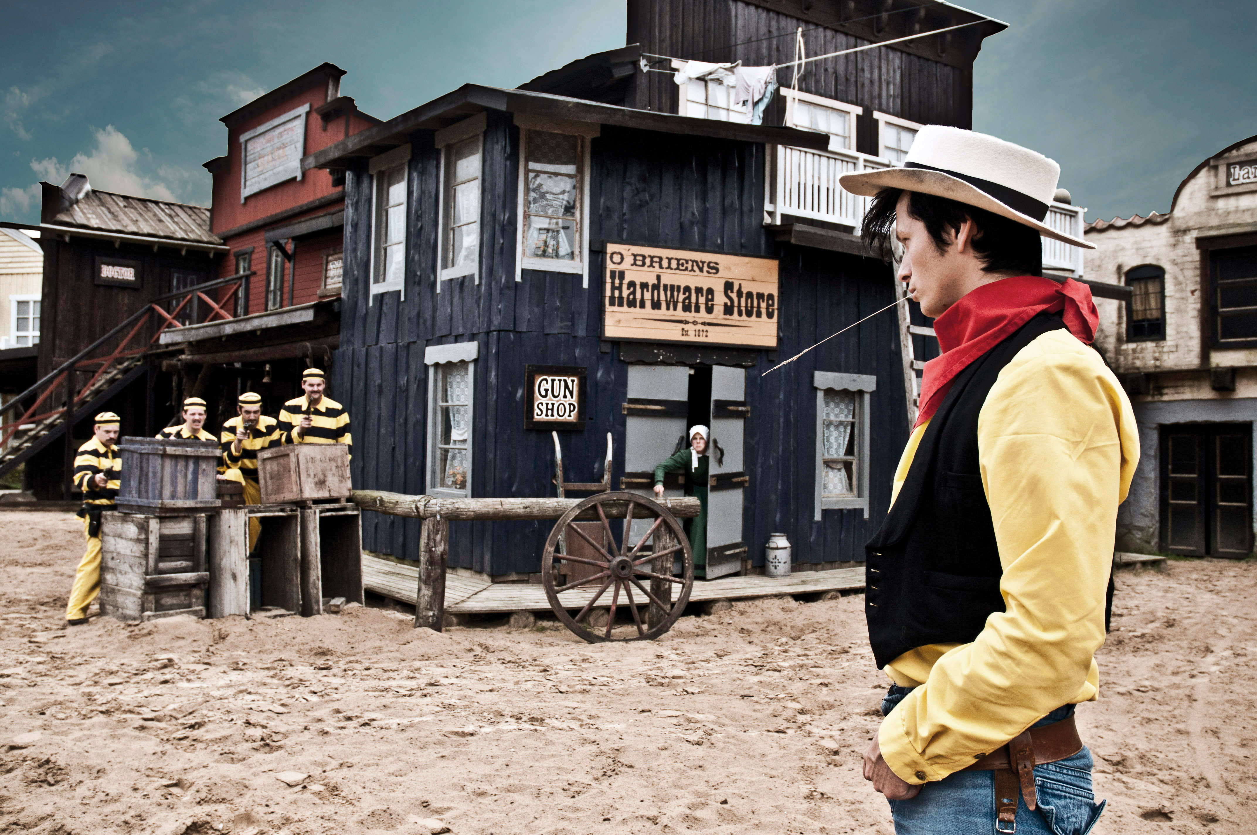 Lucky Luke Show på High Chaparral